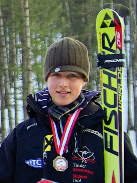 Austrian alpine skier Jessica Depauli won the bronze medal at the Austrian Junior Championships in Lackenhof on 29 January 2008.